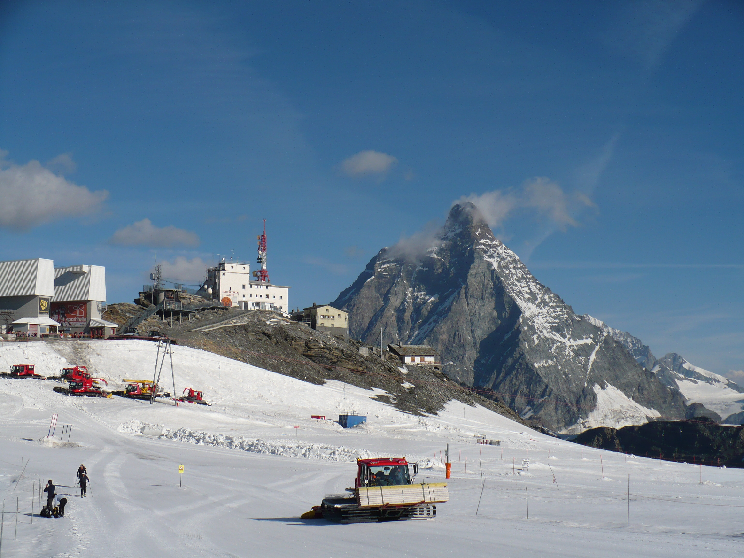 Testa Grigia - Pennine Alps